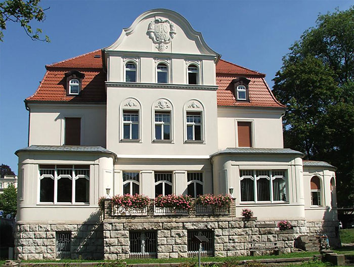 Headquarters of the "Wohnungsbaugenossenschaft "Aufbau" Gera eG" (former Villa Feistkorn at Goethestraße 6)